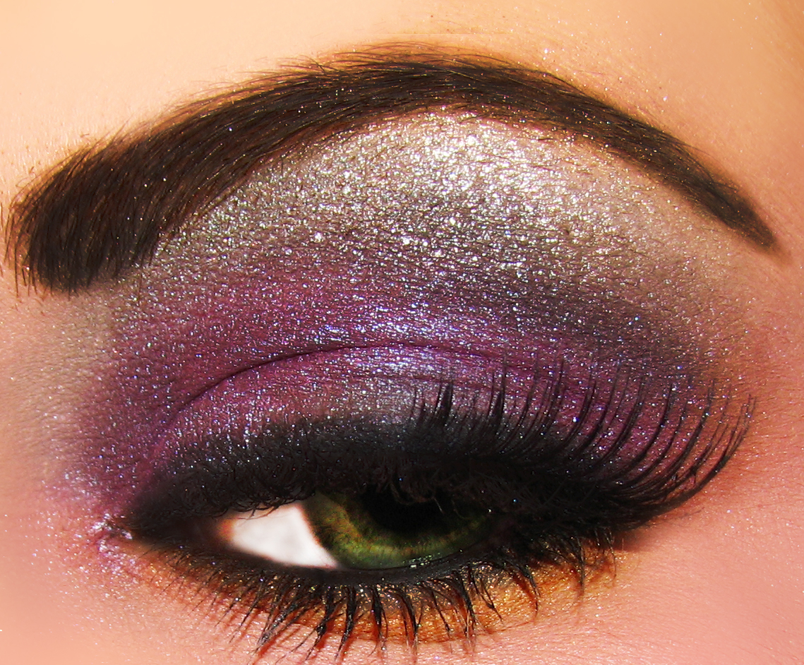 mac graphito paint mac pink pearl pigment ben nye tangerine coastal scents silver e/s ben nye amethyst mac blacktrack fluidline fake eyelashes cut in half more info here